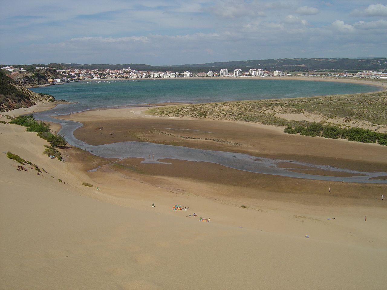 See where this picture was taken. [?]